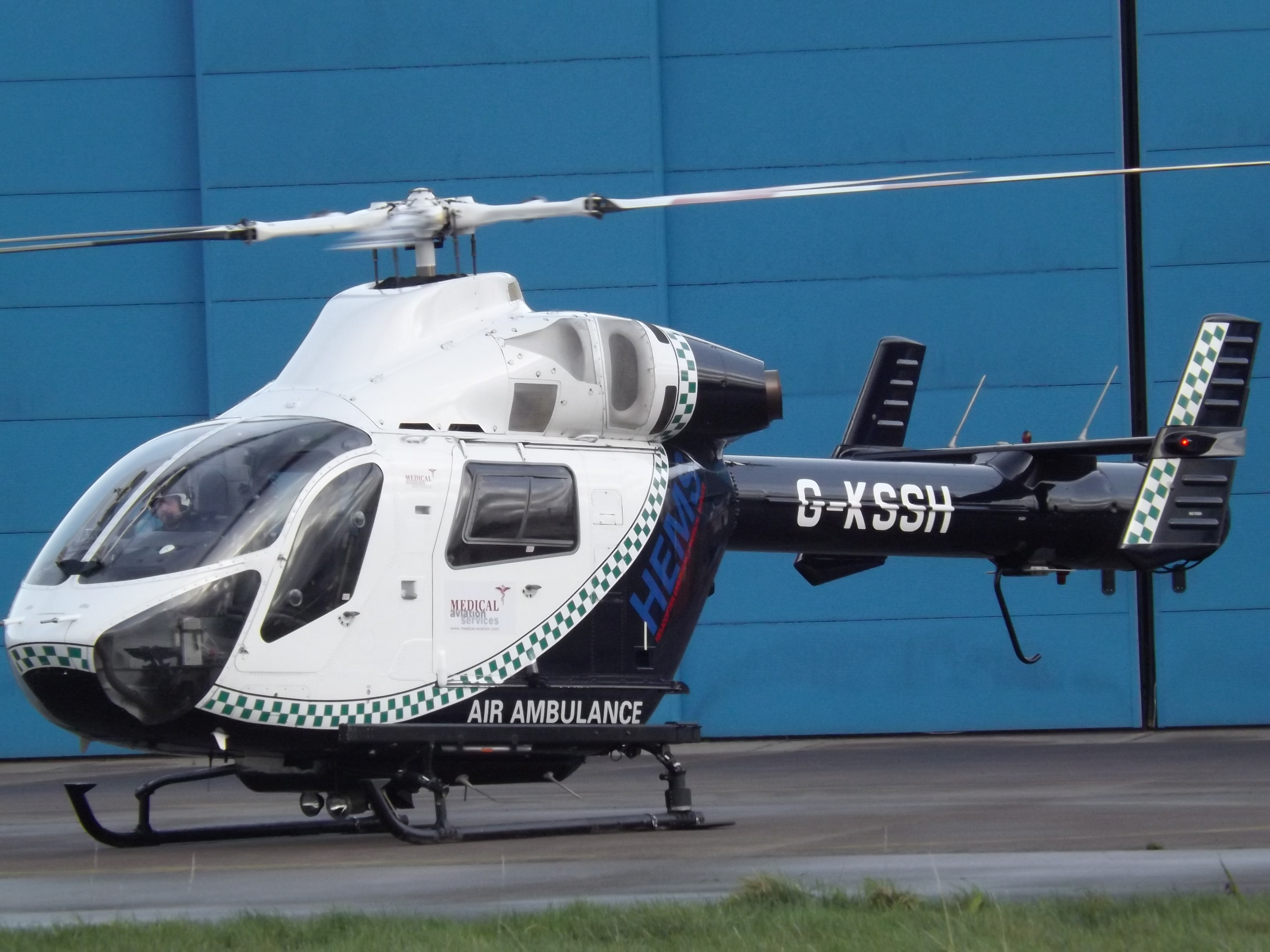 At Gloucestershire Airport.